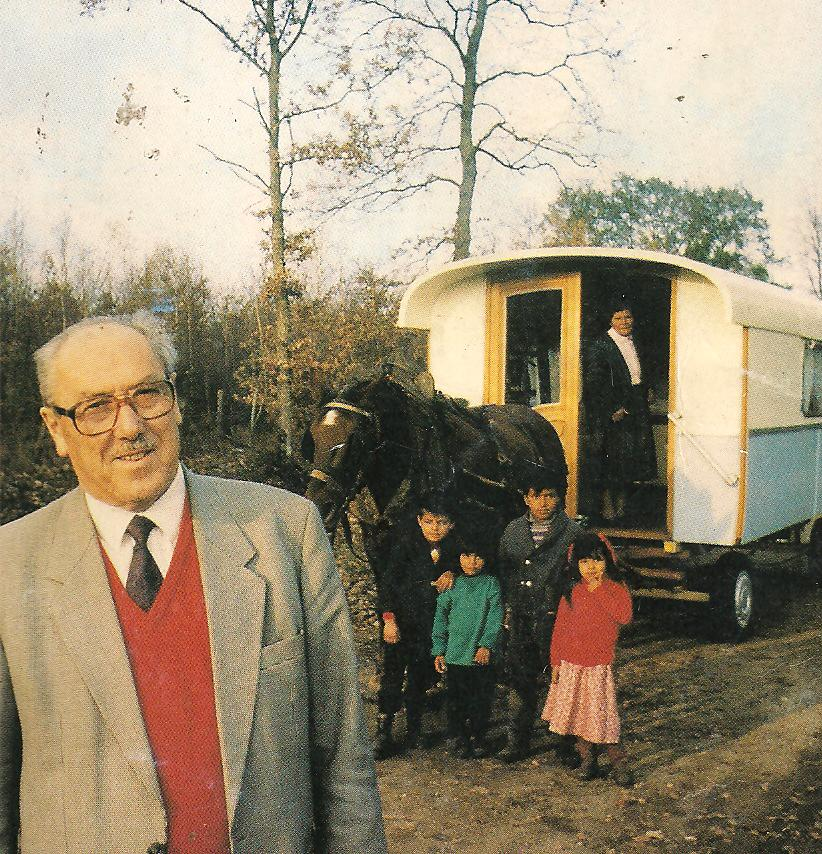 Pastor Clément Le Cossec with Roma people in France